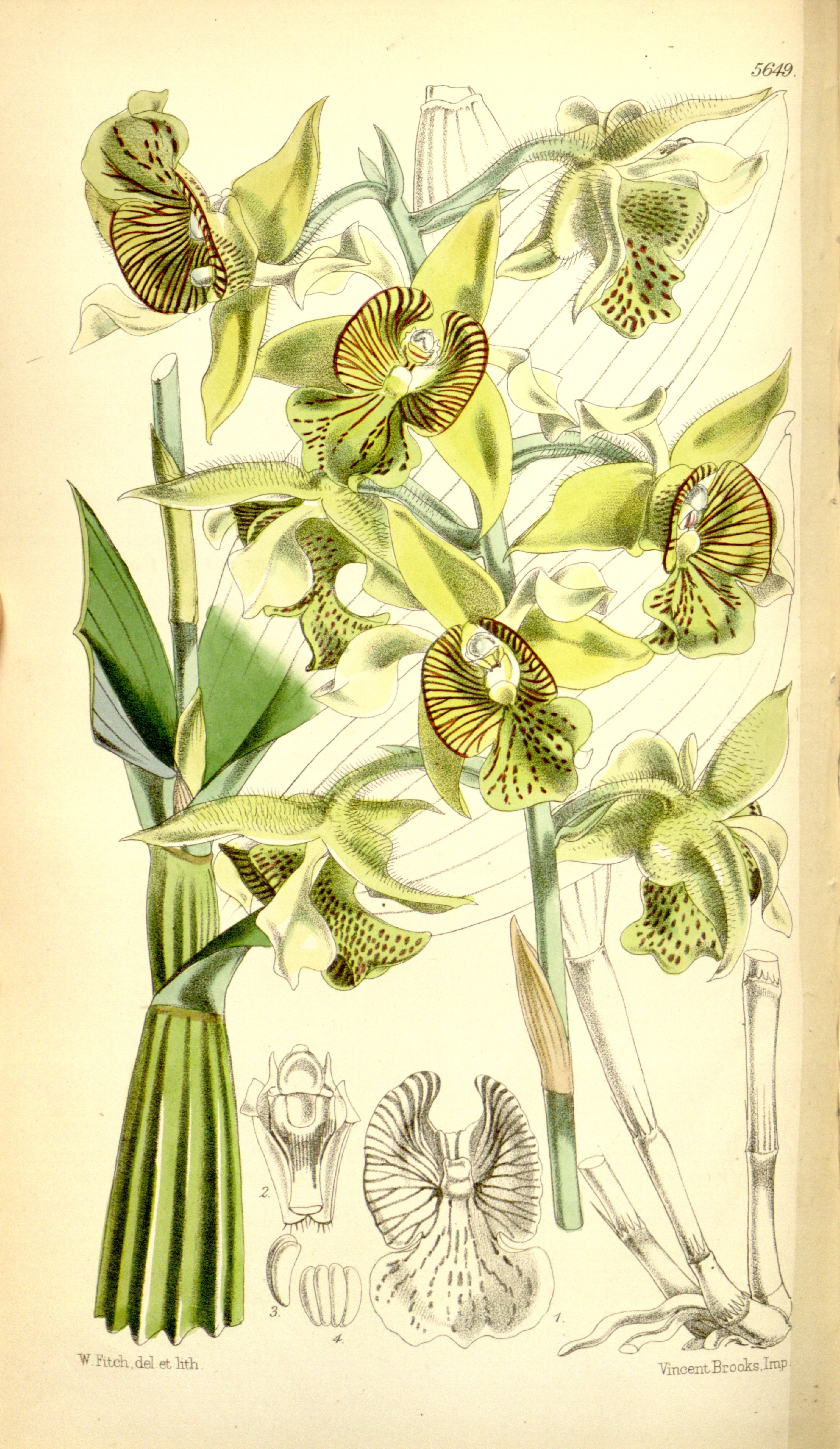 Illustration of Dendrobium macrophyllum (as Dendrobium macrophyllum, var. veitchianum)